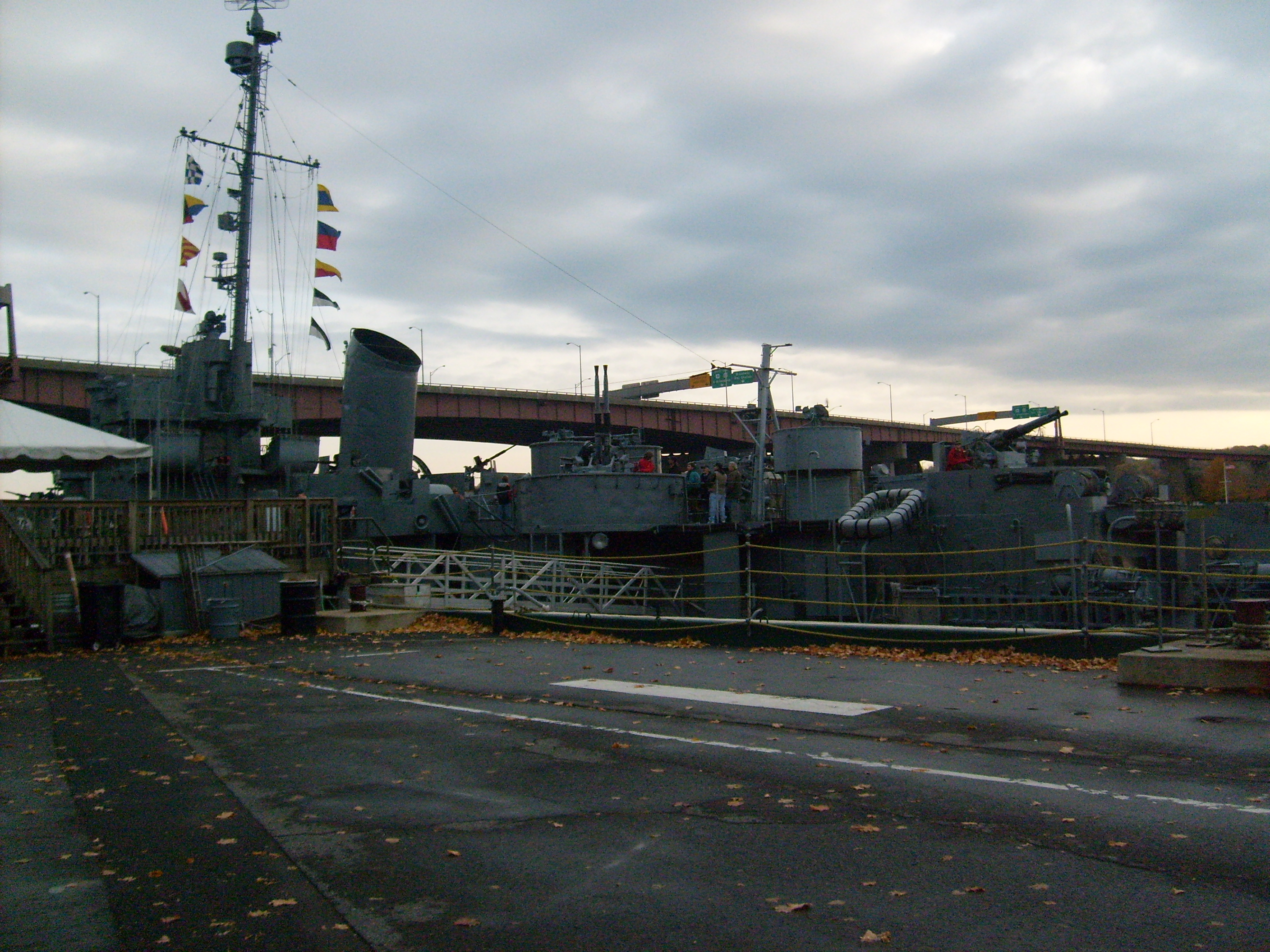 The USS Slater, in her current state as a museum ship. Taken in November 2007.